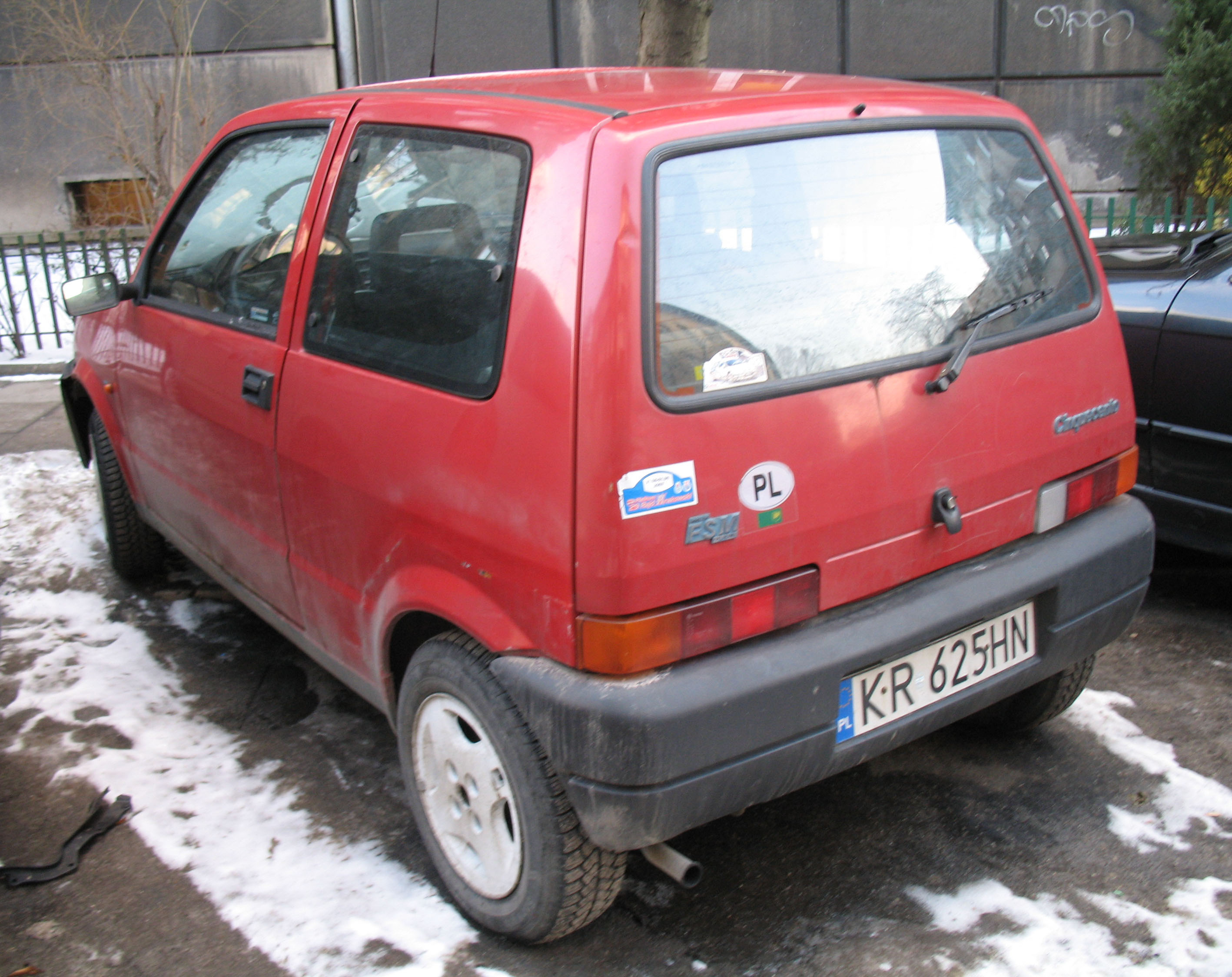 Red Fiat FSM Cinquecento ED in Kraków, Poland.